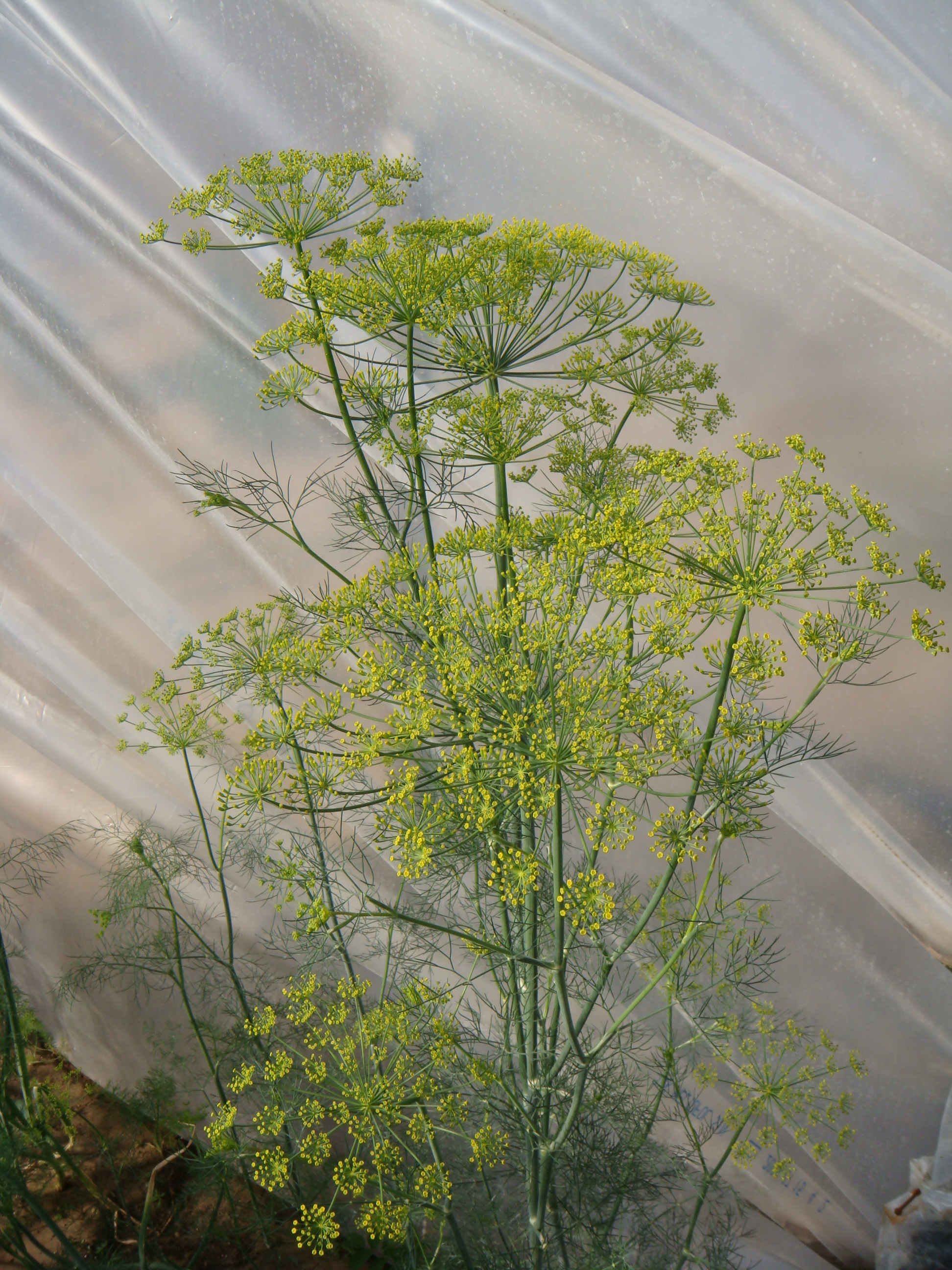 Dill in plastic tunnel at my home.